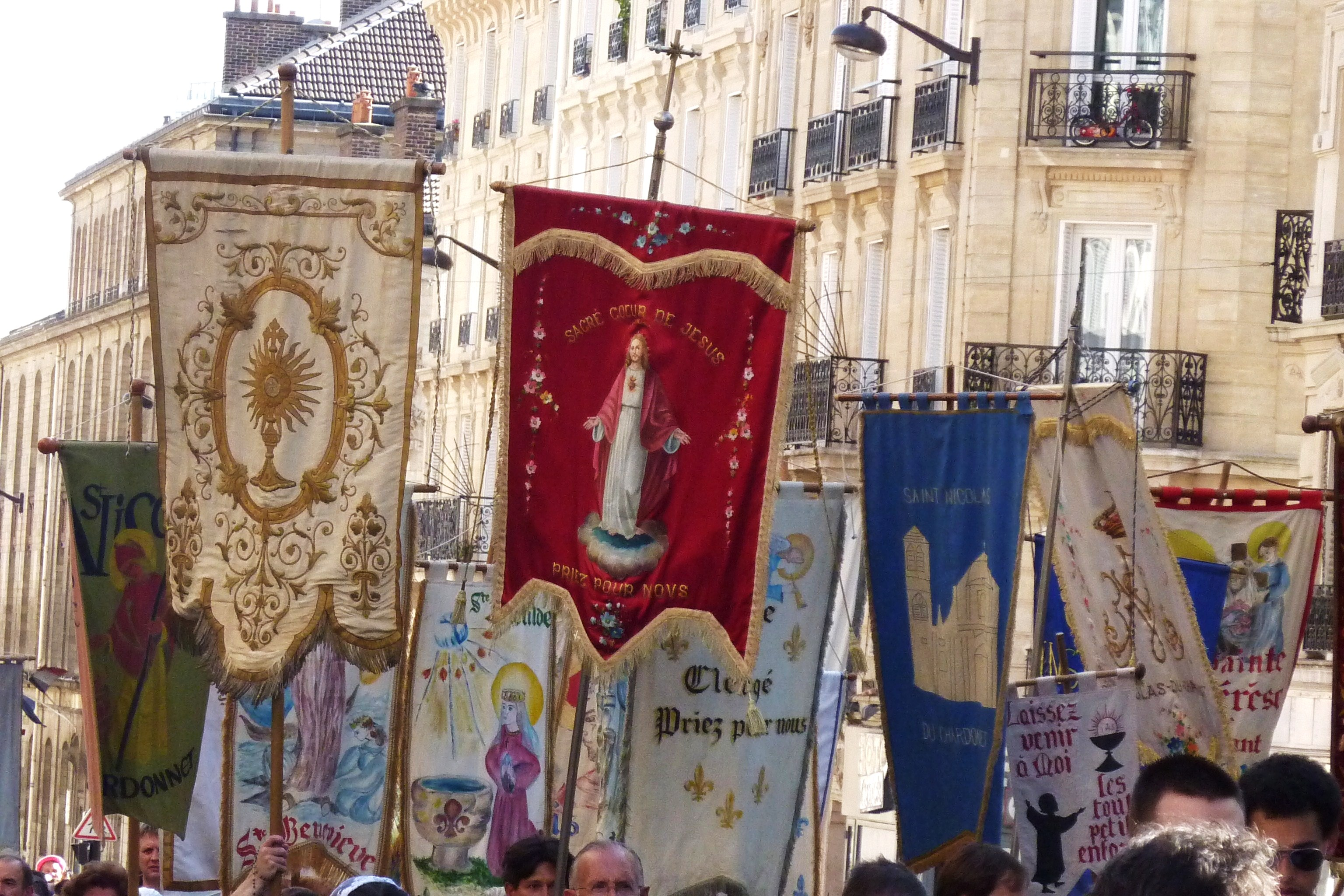 Religious procession the 15th of august (Assumption of Mary) in Paris.